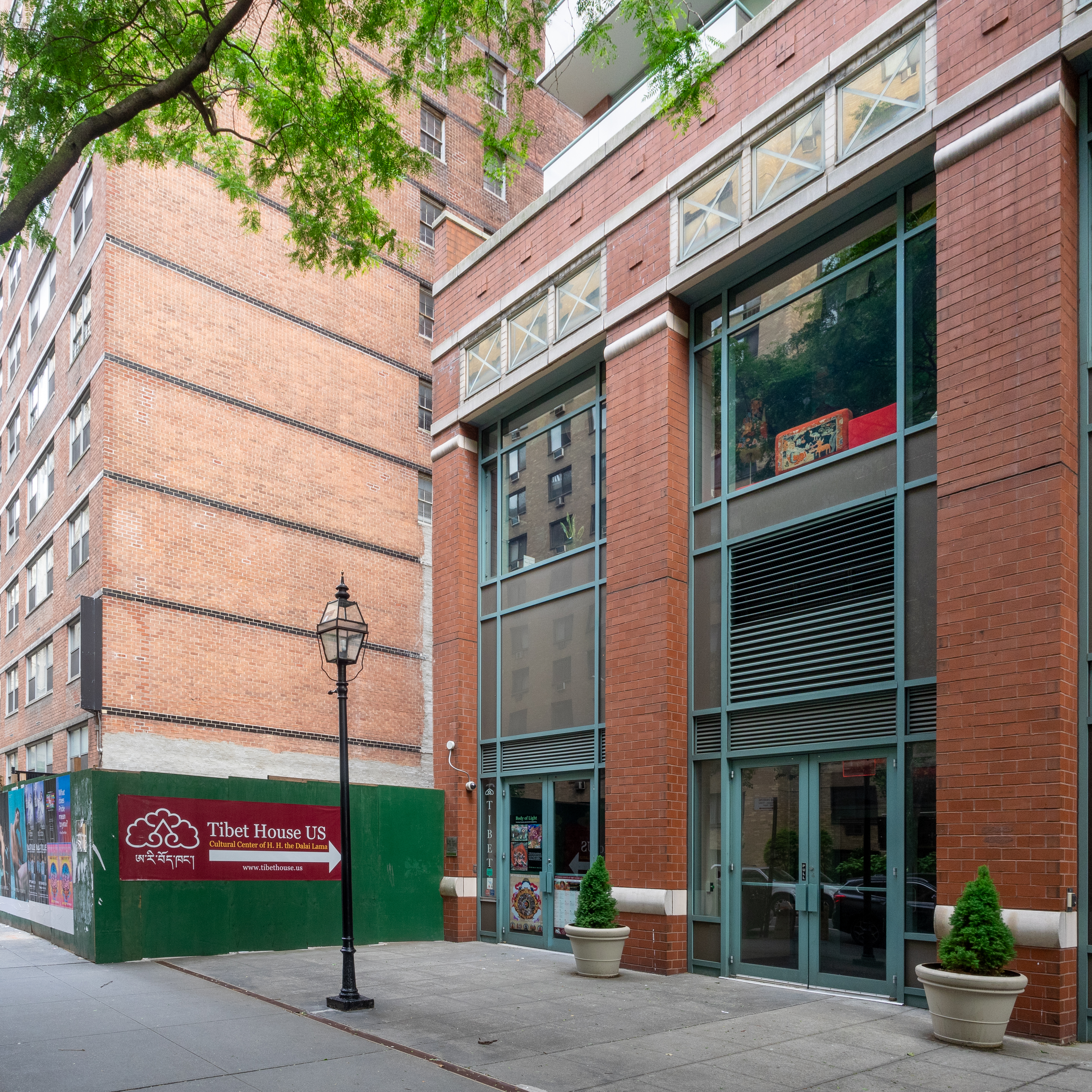 Chelsea, NYC